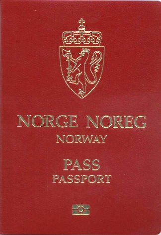 Biometric passport of Norway.